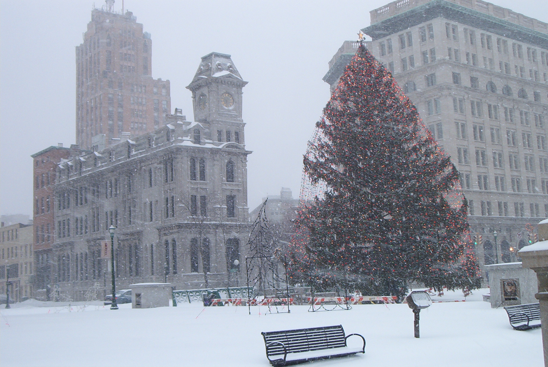 Onondaga Savings Bank Building on left. This one is also known as the Gridley Building. There is another Onondaga Savings Bank building in Syracuse.